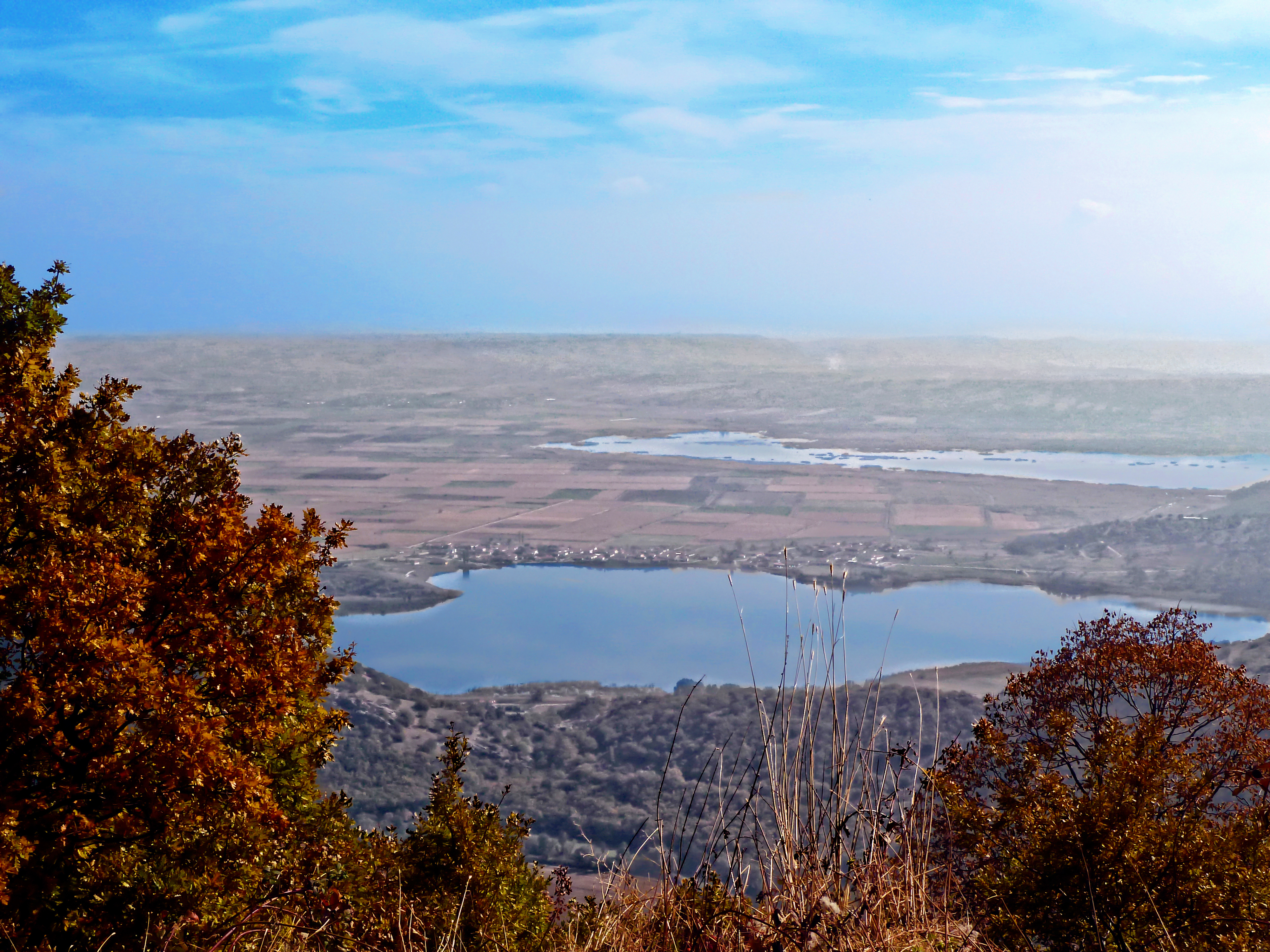 Chimaditida and lake Zazari from Nymfaio This is a photography of Natura 2000 protected area with ID GR1340005